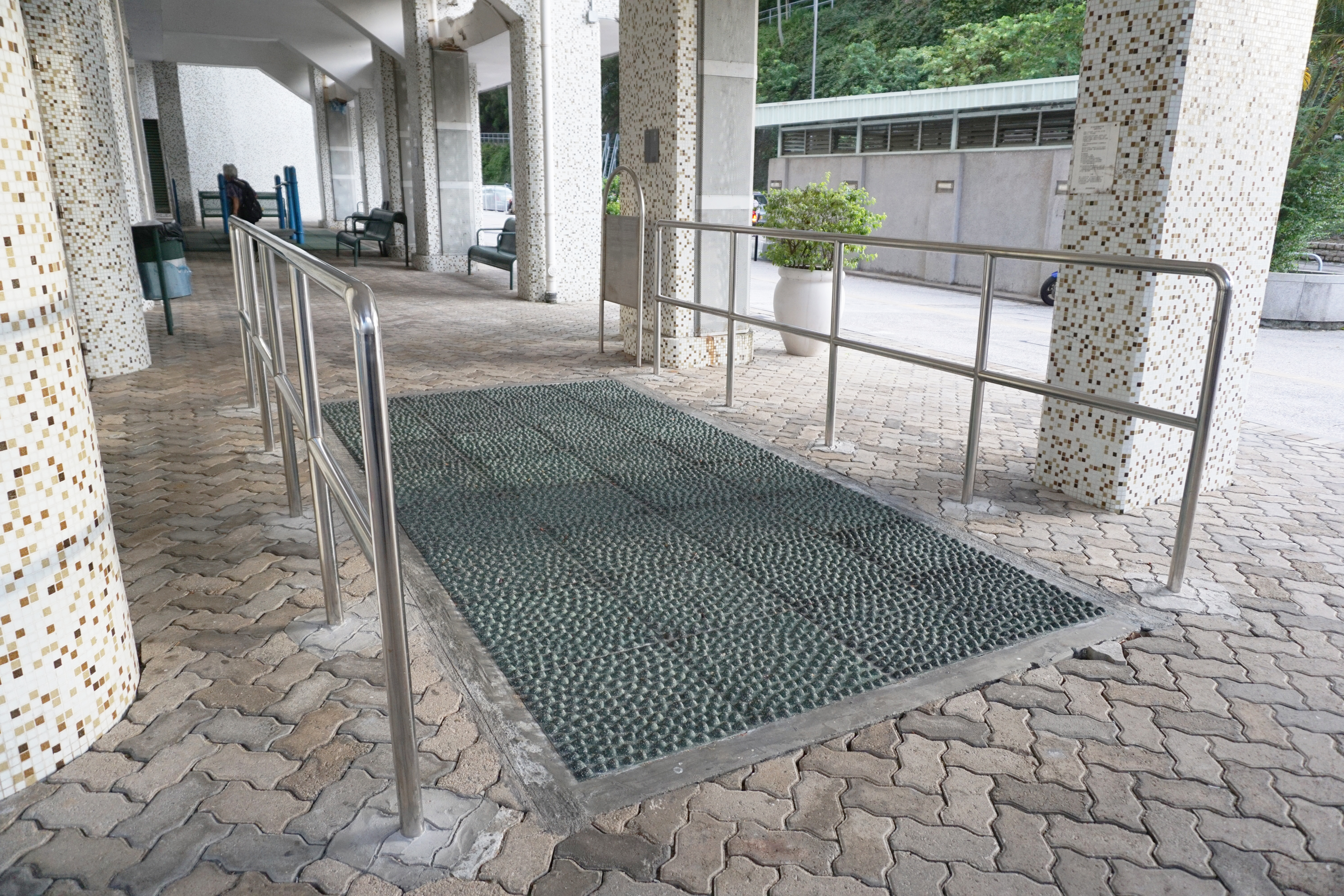 Kwai Shing East Estate in Kwai Shing, Hong Kong.